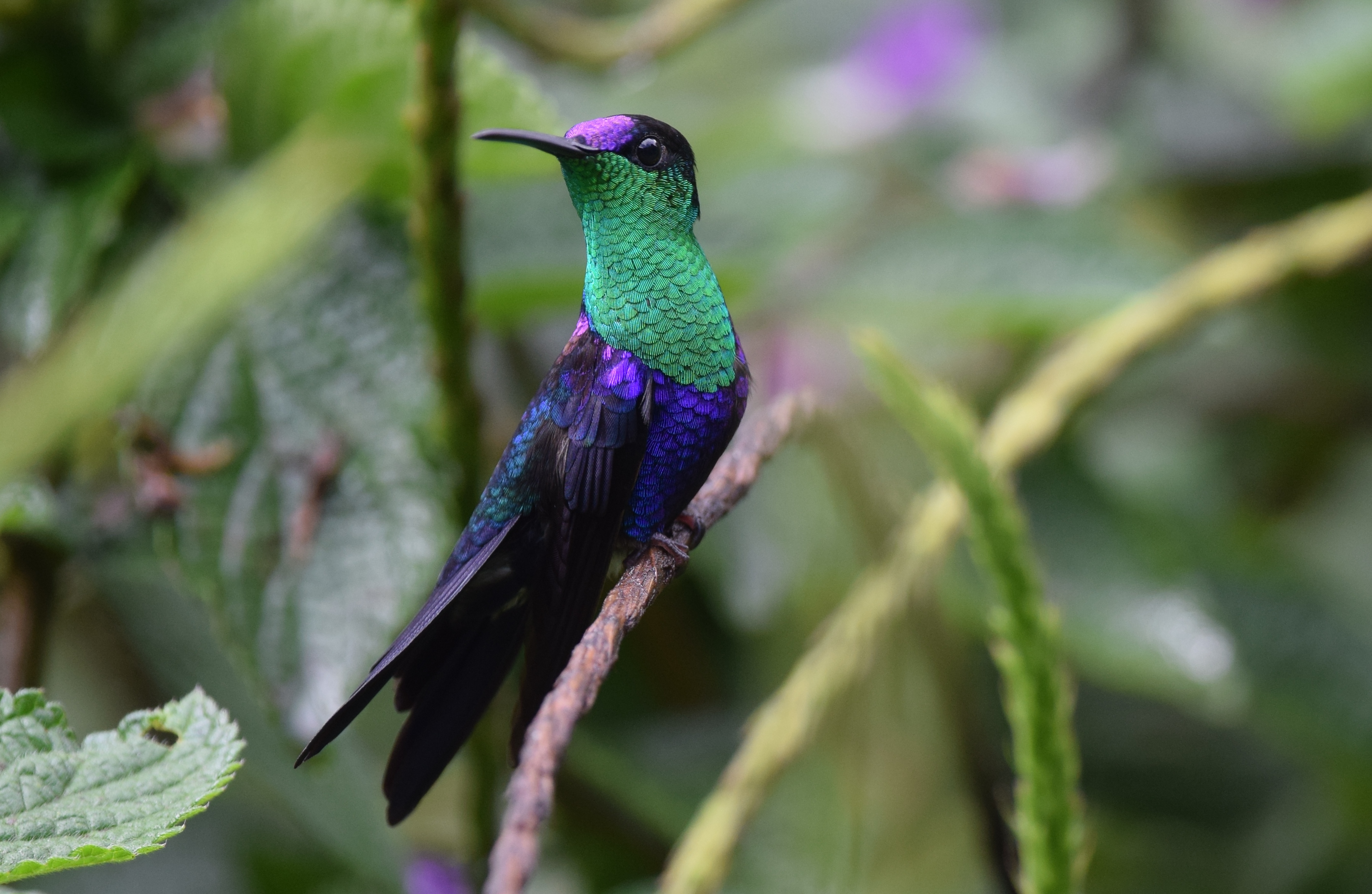 Costa Rica 2/12/16 Rancho Naturalista